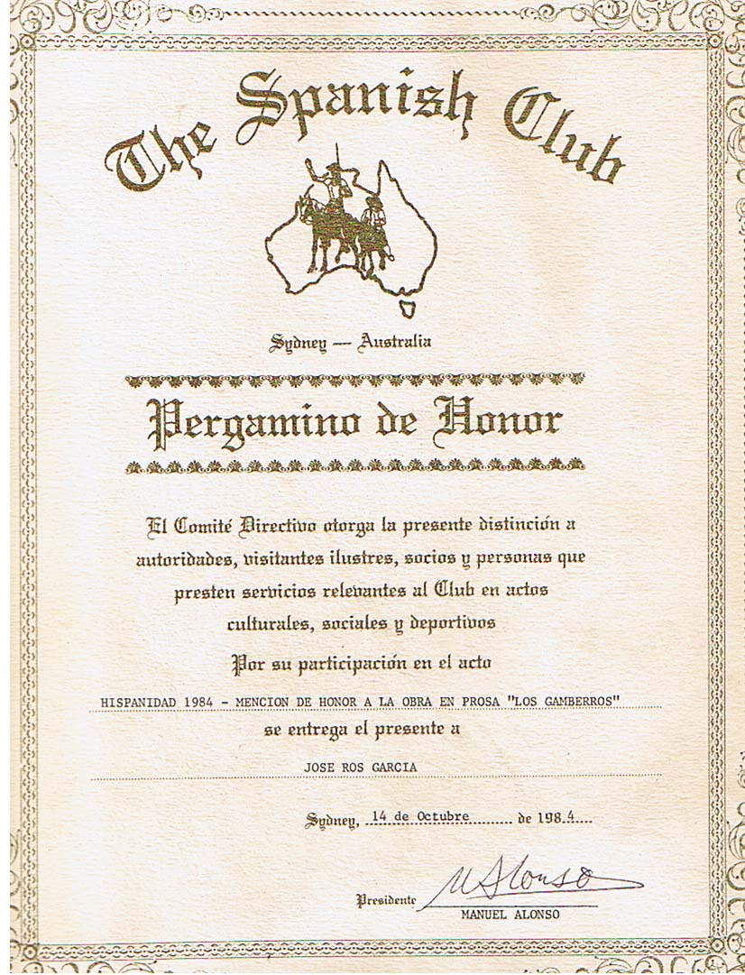 One of the poet's literature awards (Parchment of Honour award)